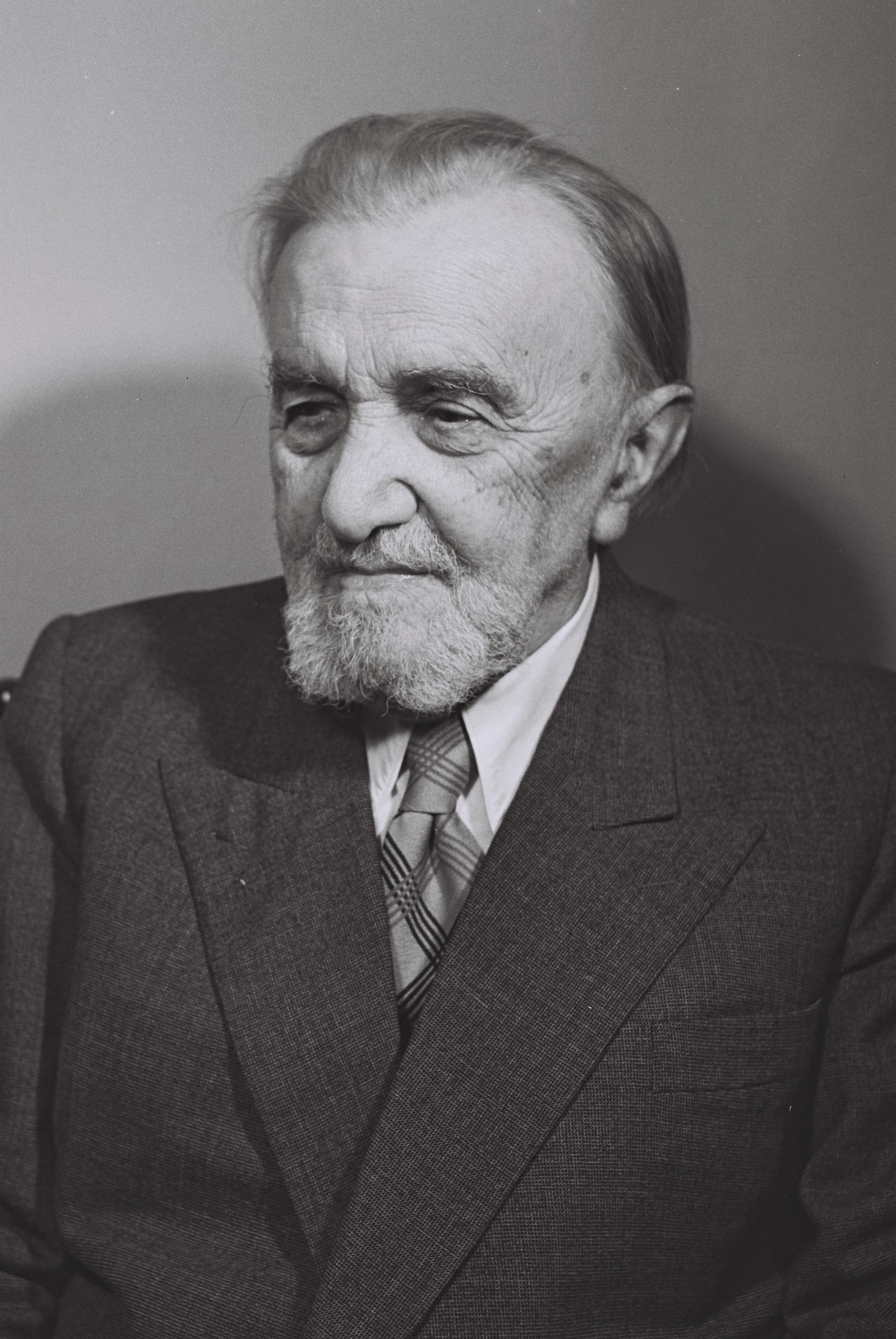 Mr. Eliyahu Berlin, member of the first Knesset.